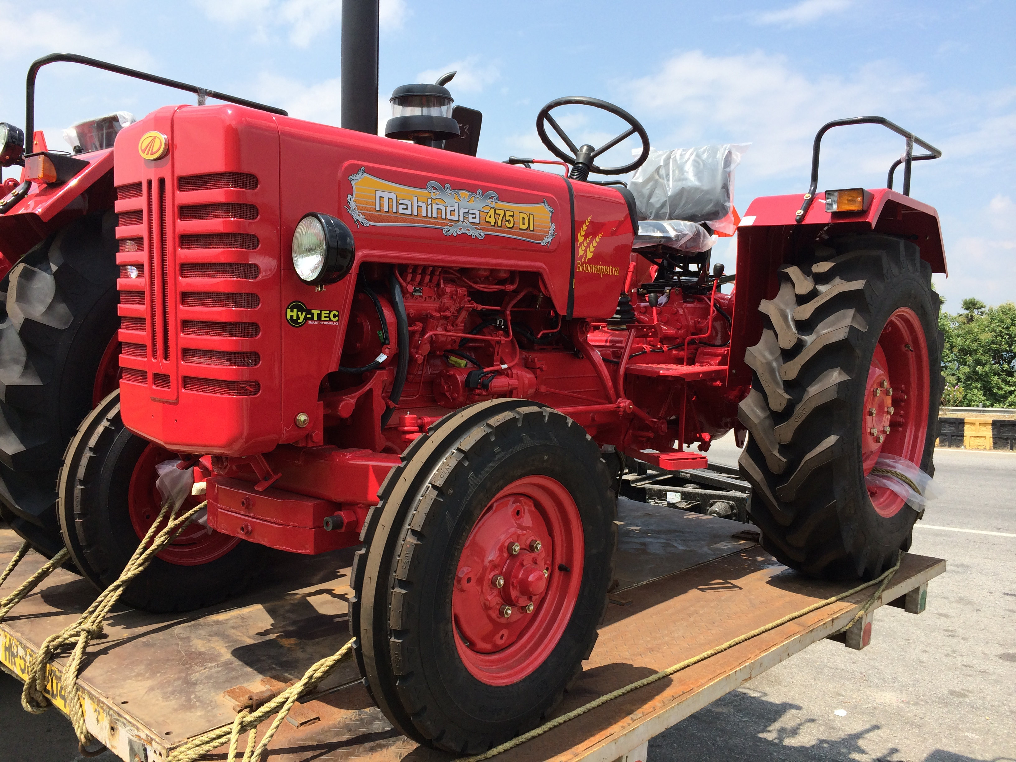 Mahindra 475 DI Tractor, 2015